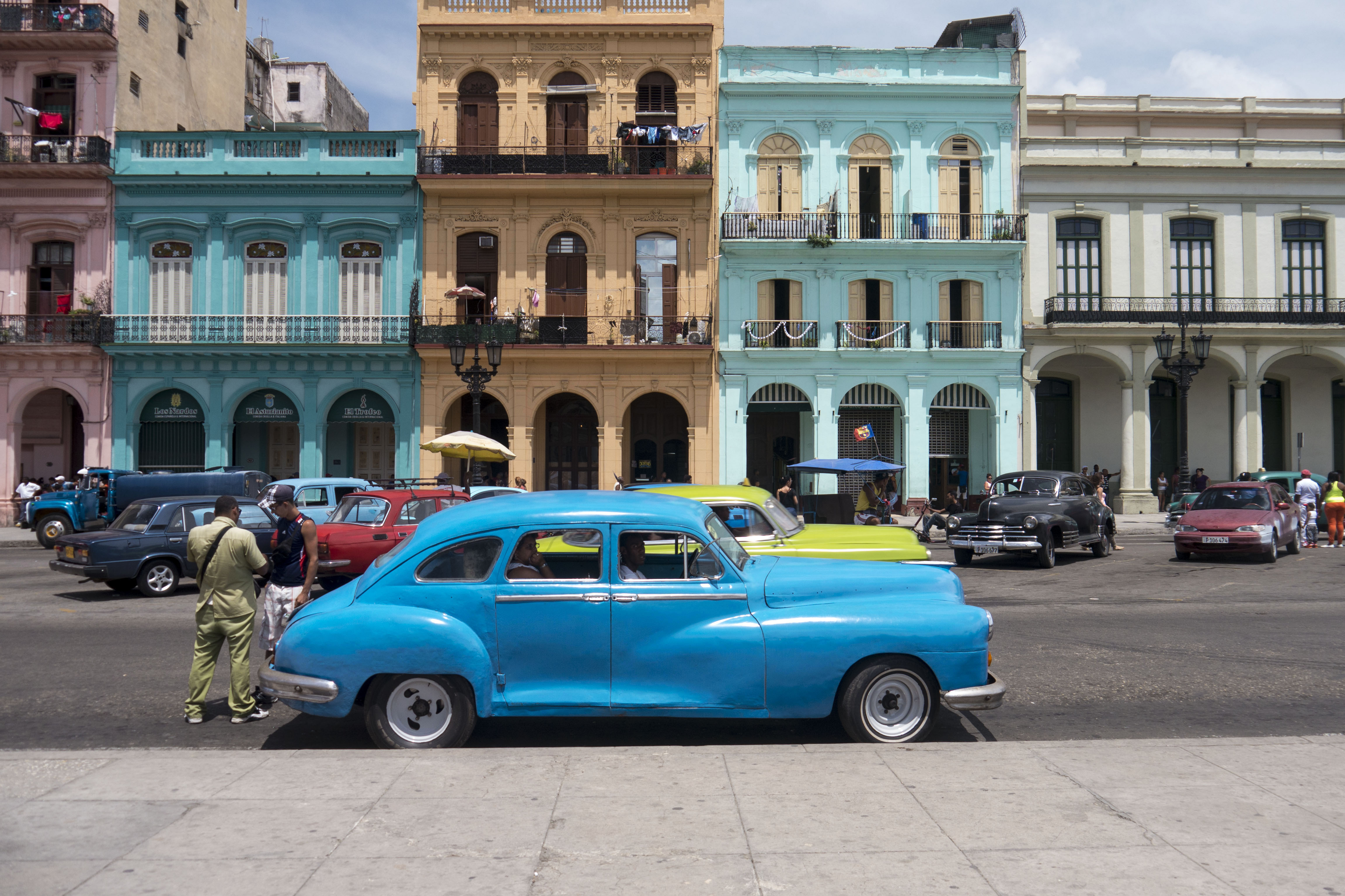 Cuba May 2014